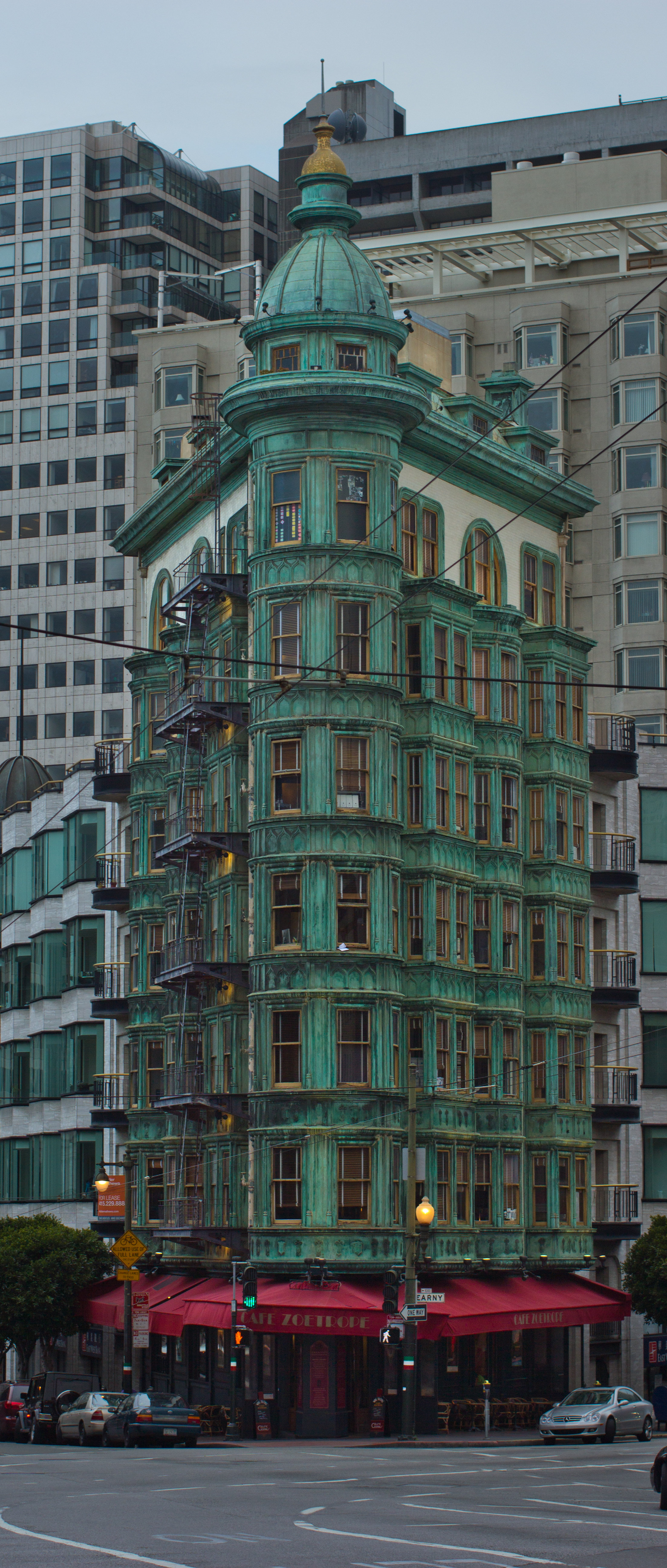 Cafe Zoetrope in San Francisco